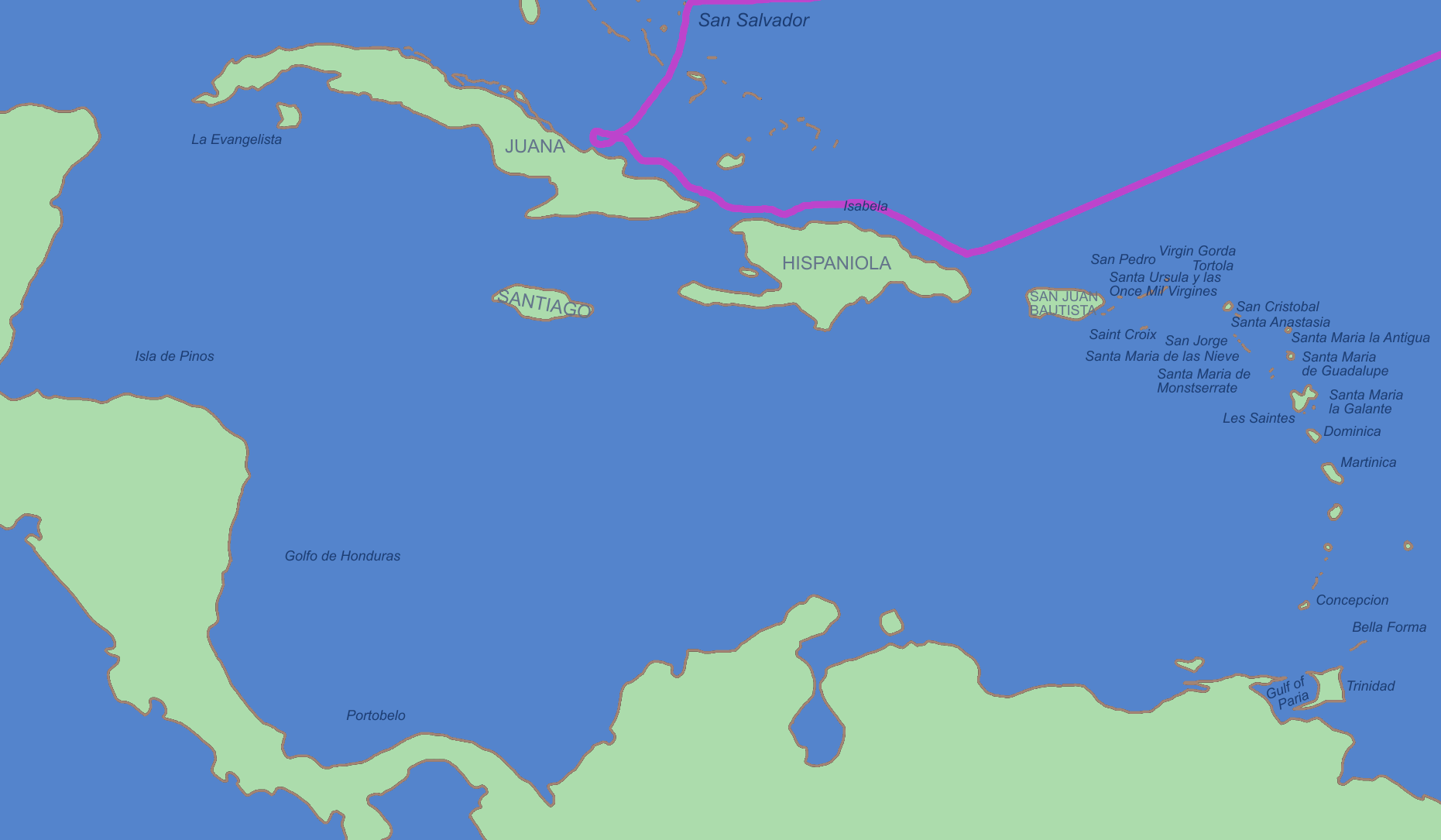 This is the route of first voyage of Columbus in the Caribbean. This map shows the Spanish-given names by which Columbus would have known these places.